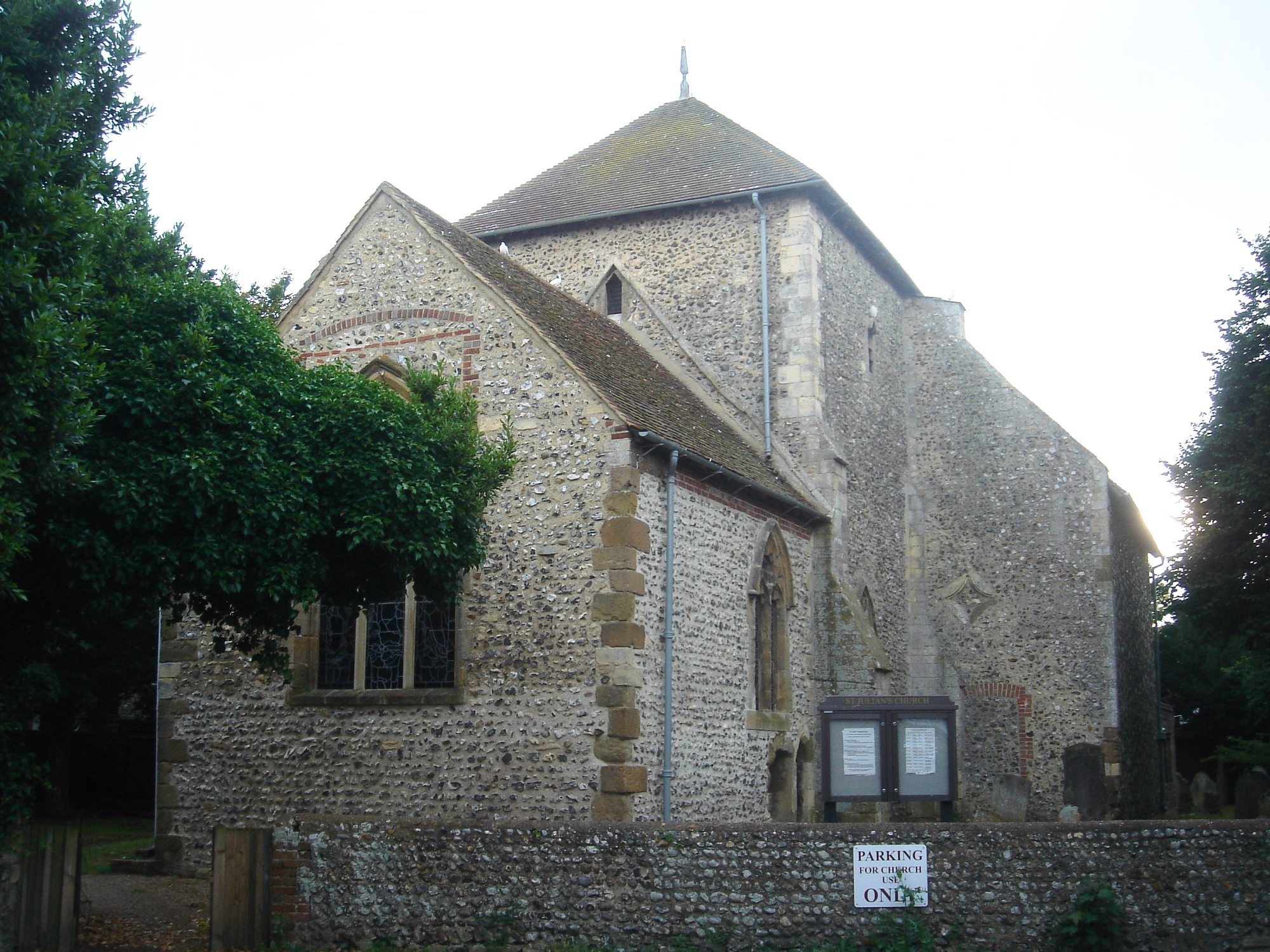 St Julian's Church, Kingston Buci, Shoreham-by-Sea, Adur District, West Sussex, England. An 11th-century parish church in the ancient village of Kingston Buci, now the suburb of Kingston-by-Sea in the urban area between Southwick and Shoreham-by-Sea. listed at Grade I by English Heritage (IoE Code 297311)